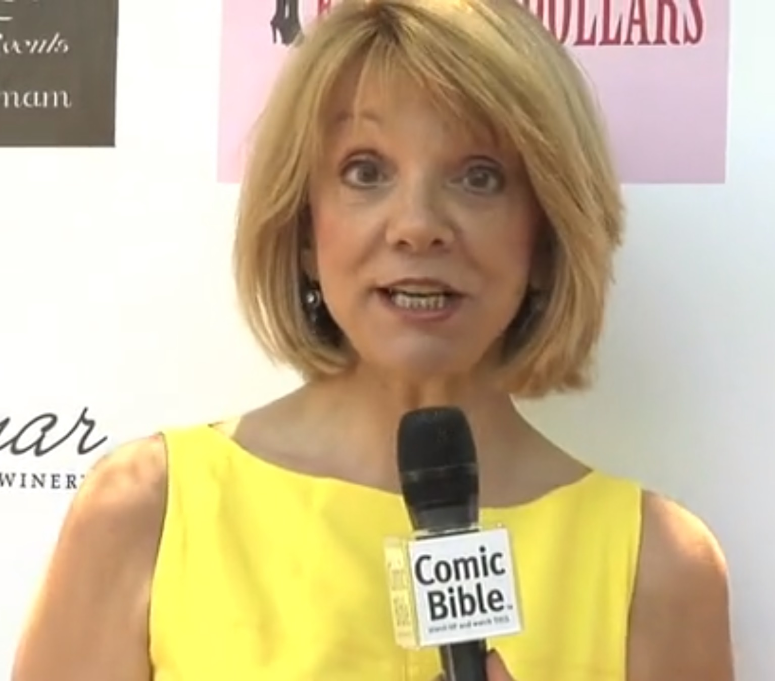 American comic actress Teresa Ganzel talks about only playing comedy roles, fitness, working with Jim Carey, Johnny Carson and her legs with Comic Bible TV Host Tamara Henry on the red carpet at Donna Spanglers Flexin-4-Dollars Summer Soiree Benefiting One . Host: Tamara Henry Camera: Tod Hillman Produced by: MAP ©2012 PMS Productions Inc.